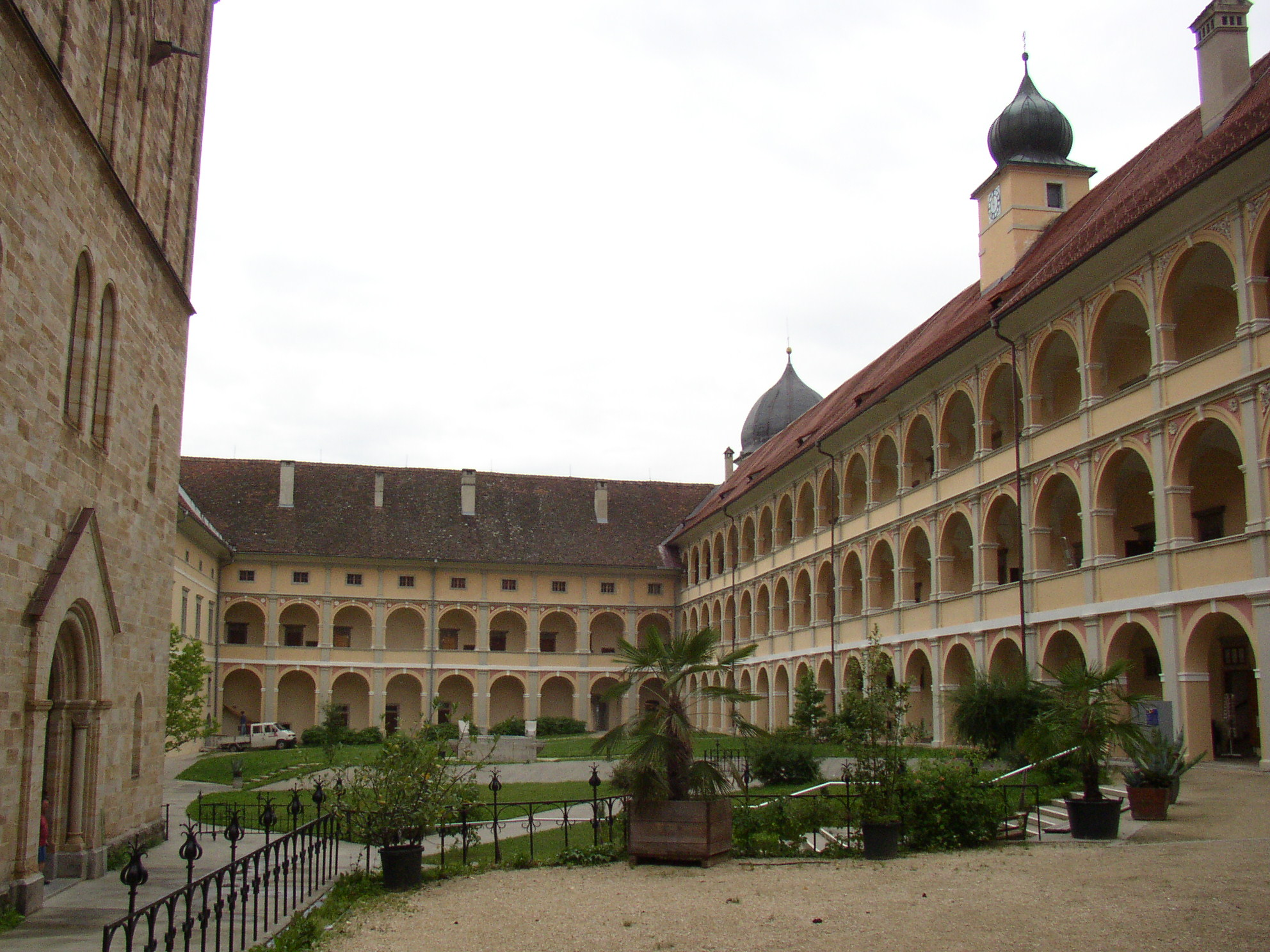 Yard of Seckau abbey